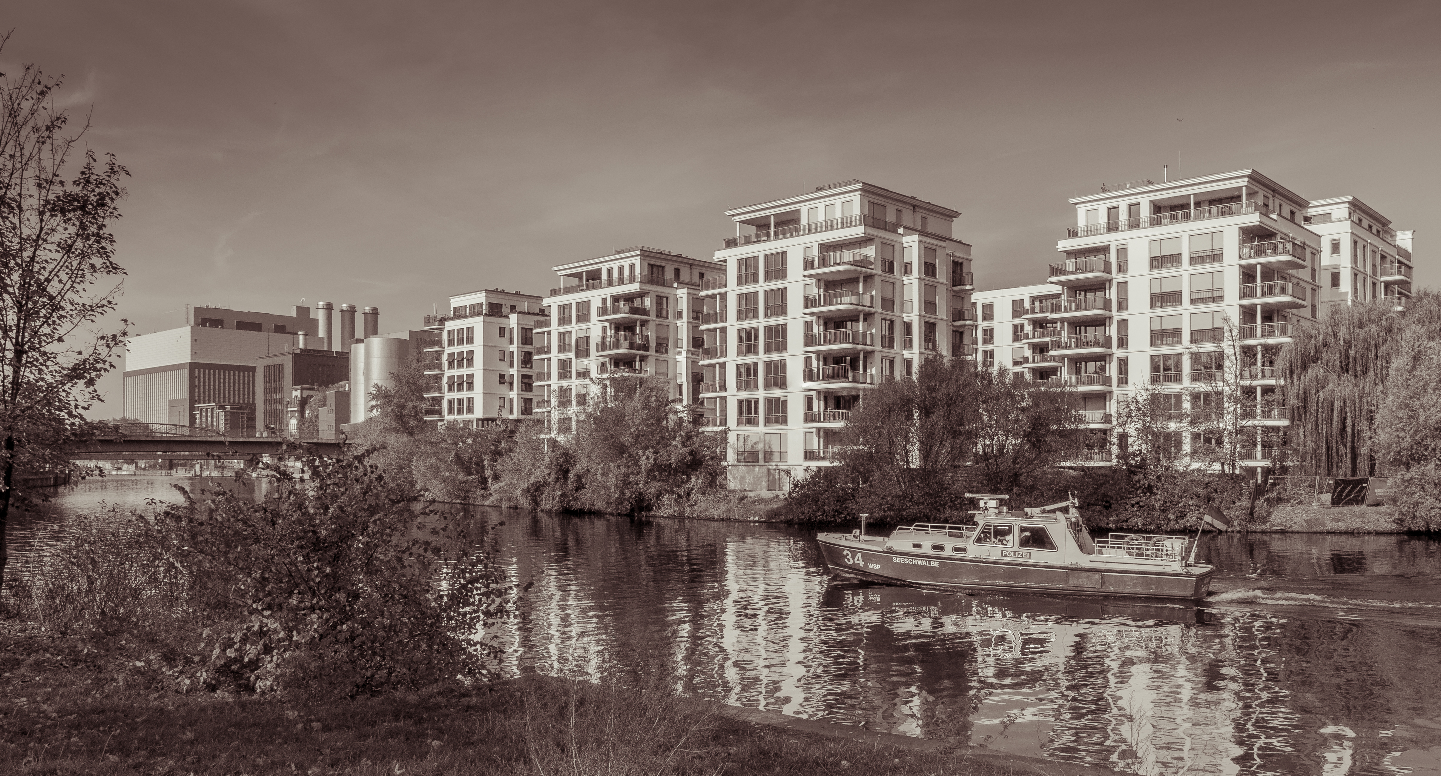 Berlin, Spree, view at Röntgenbrücke from South